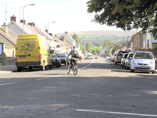 Gortin Co. Tyrone. The sleepy village of Gortin to the north of Omagh